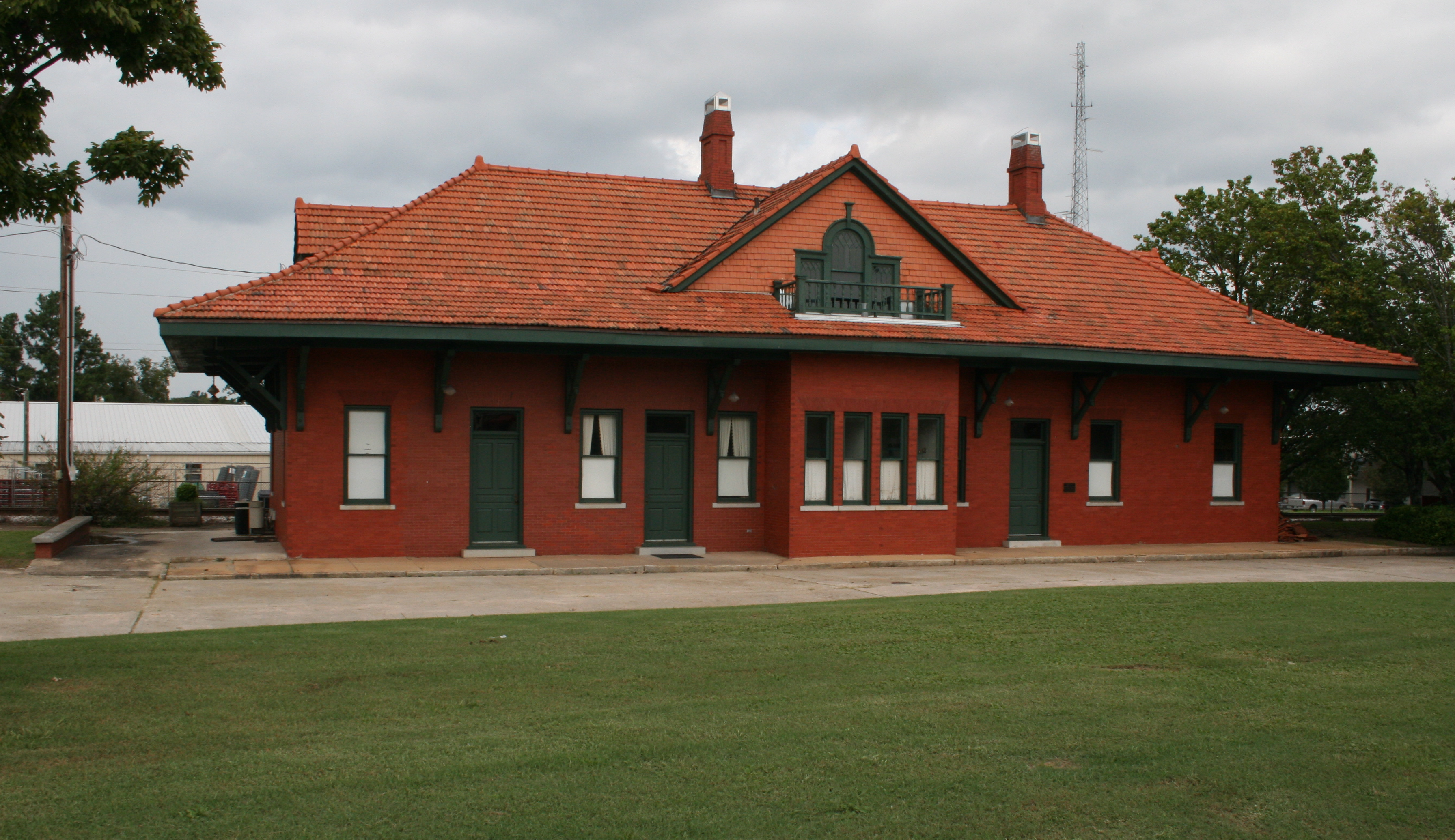 train station in Elberton GA from 1910 to early 1970s is the current home of the Elbert County Historical Society